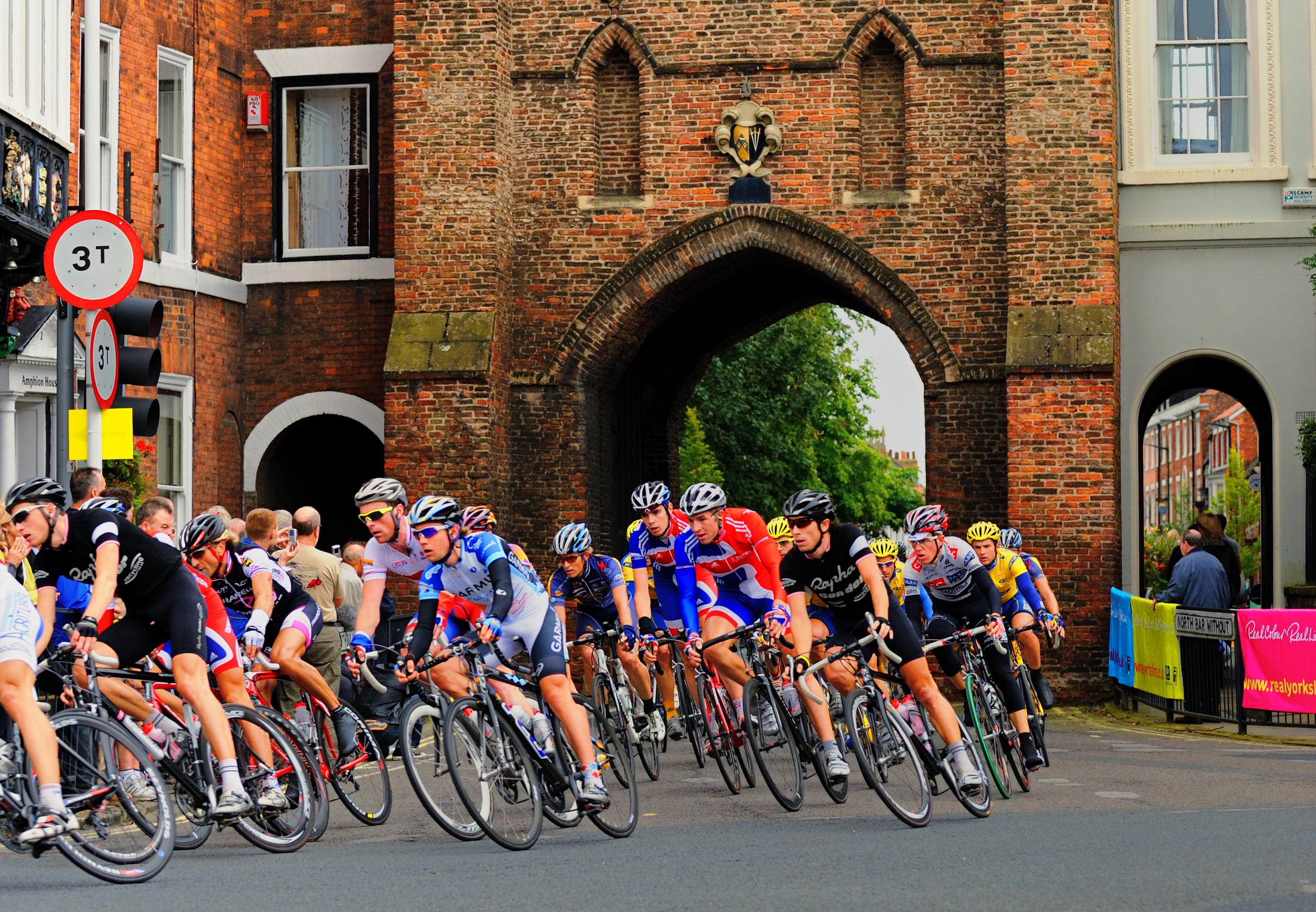 Tour of Britain 2008 Stage 5, Beverley Bar, Beverley, East Riding of Yorkshire, England.